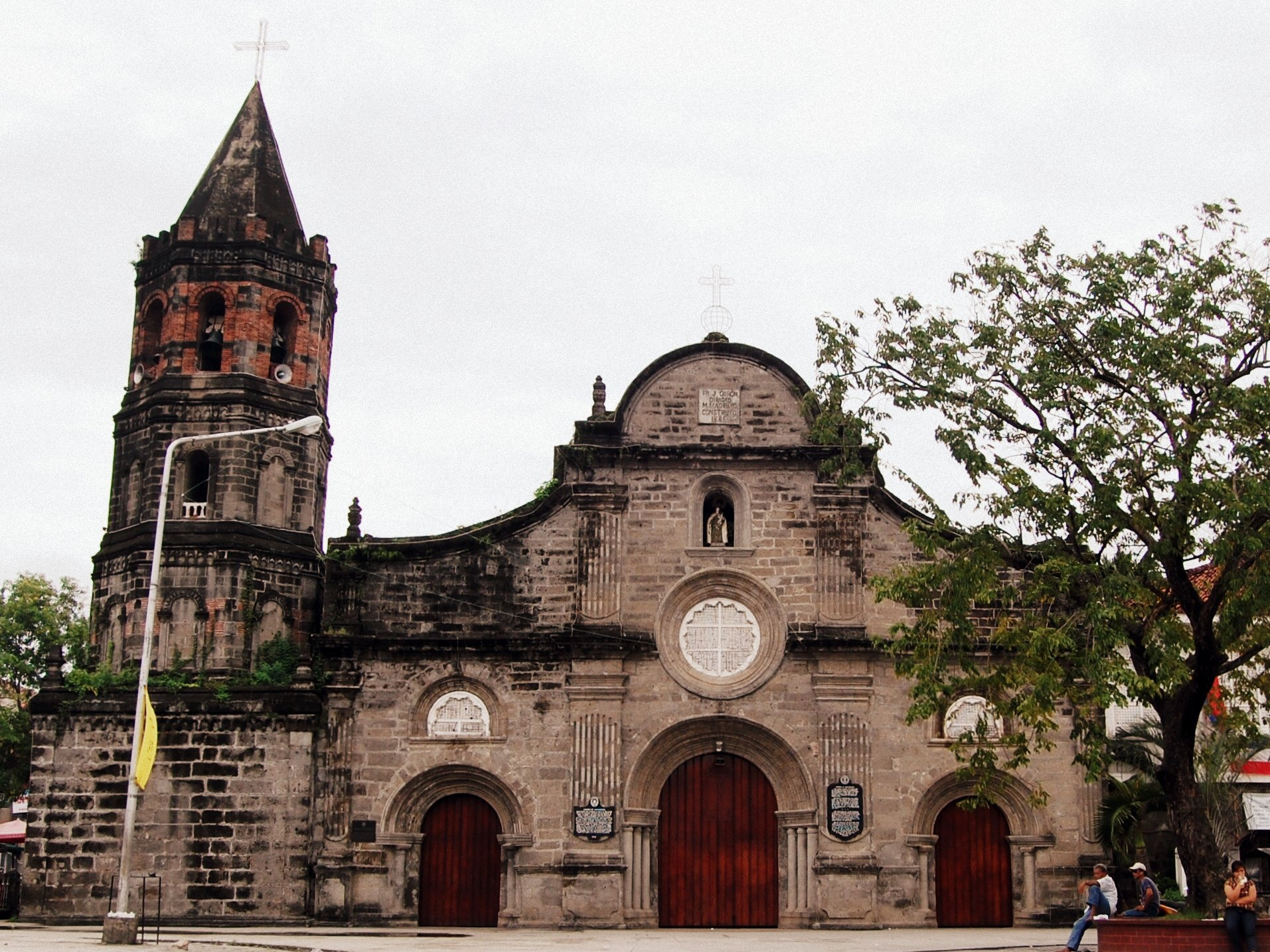 Image of Barasoain Church.